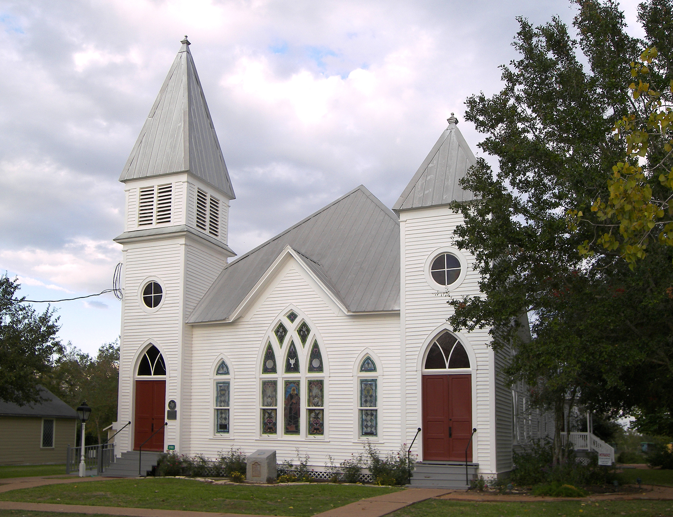 The Chappell Hill Methodist Episcopal Church located Chappell Hill, Texas, United States. The church was designated a Recorded Texas Historic Landmark in 1967 and listed on the National Register of Historic Places on February 20, 1985.